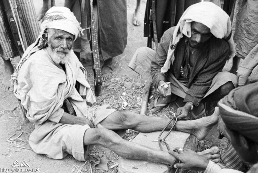 Yemen during the 1962 revolution